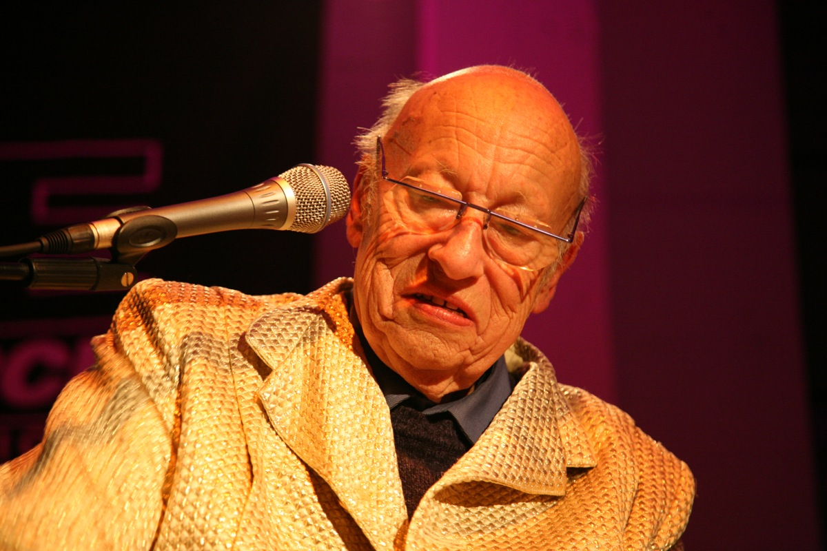 photos by Randy Yau